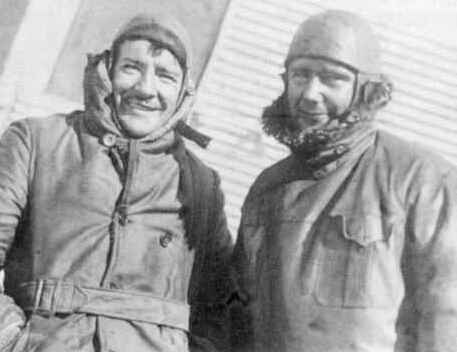 Edward A. Stinson, Jr. and Lloyd Wilson Bertaud. Caption on reverse: Eddie Stinson + Lloyd Bertaud (12/31/21) after setting endurace record of 26 hrs 10 min in Junkers JL-6 metal plane.